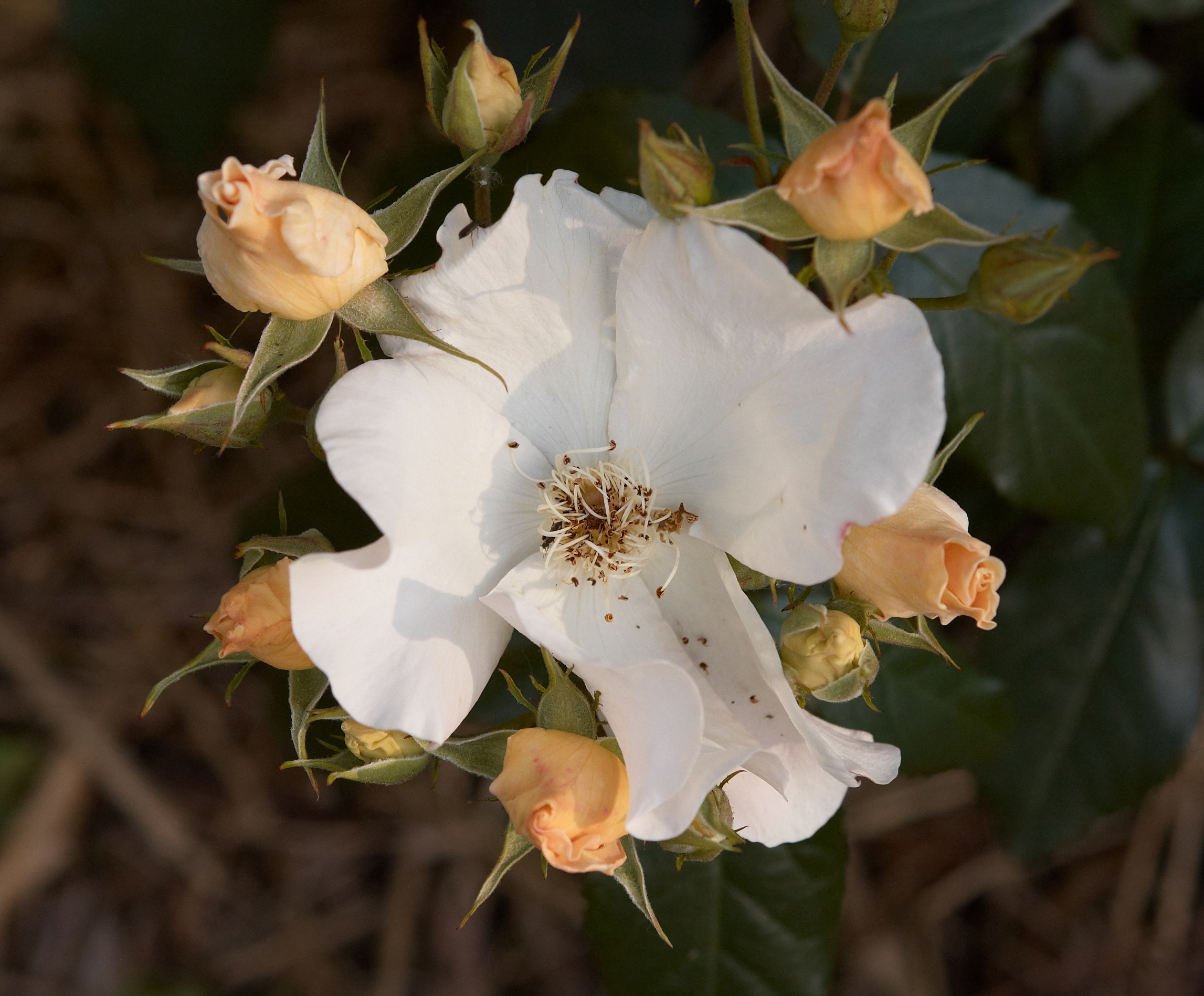 Rosa 'Sally Holmes'